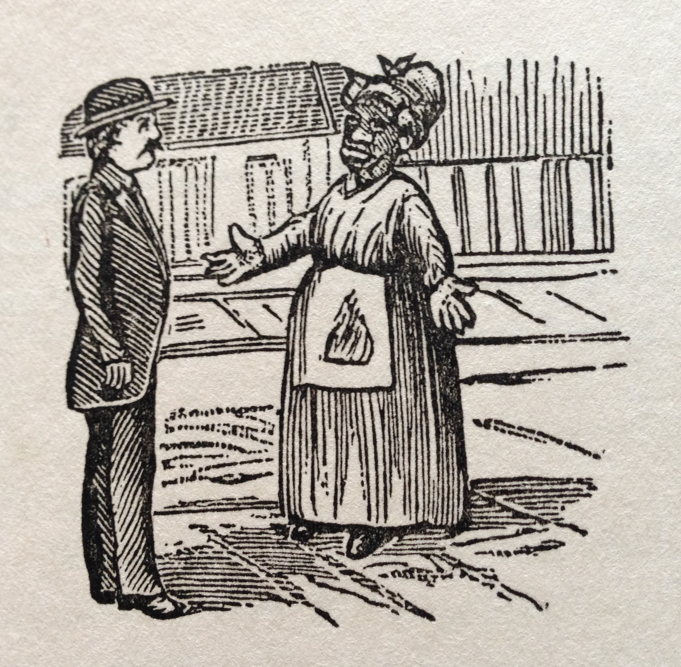 A cartoon drawn by Lafcadio Hearn and published in the New Orleans Daily Item, 1880.